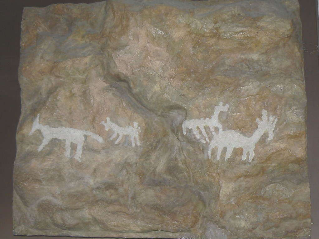 Replica of rock painting from village Gortalovo, in the Regional history museum in Pleven, Bulgaria